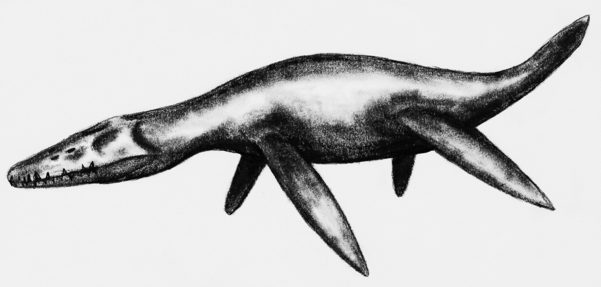 speculative live reconstructionof the monster of Aramberri, a giant pliosaur discovered in Mexico